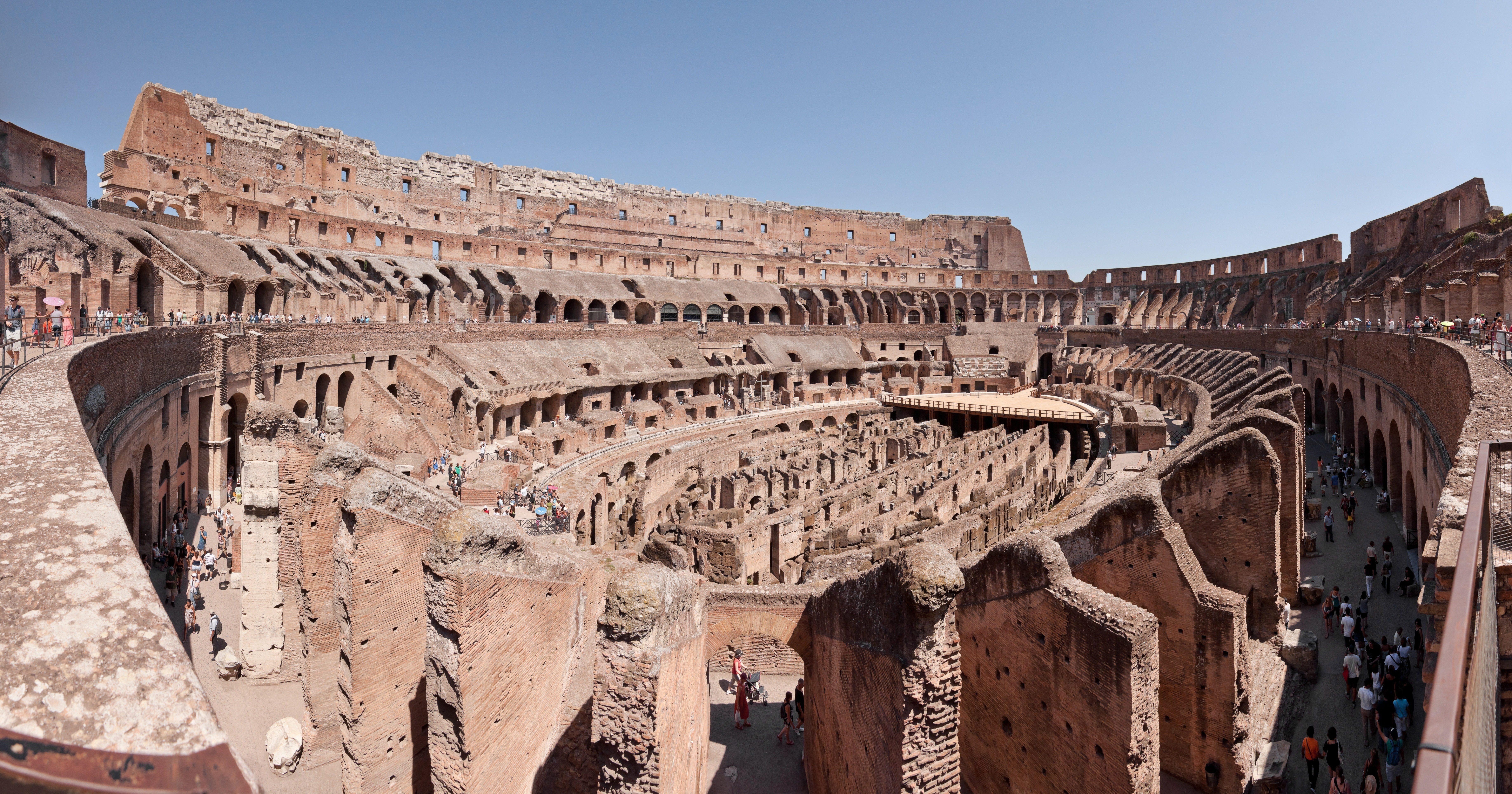 10 × 2 images panoramic of Rome Colosseum.